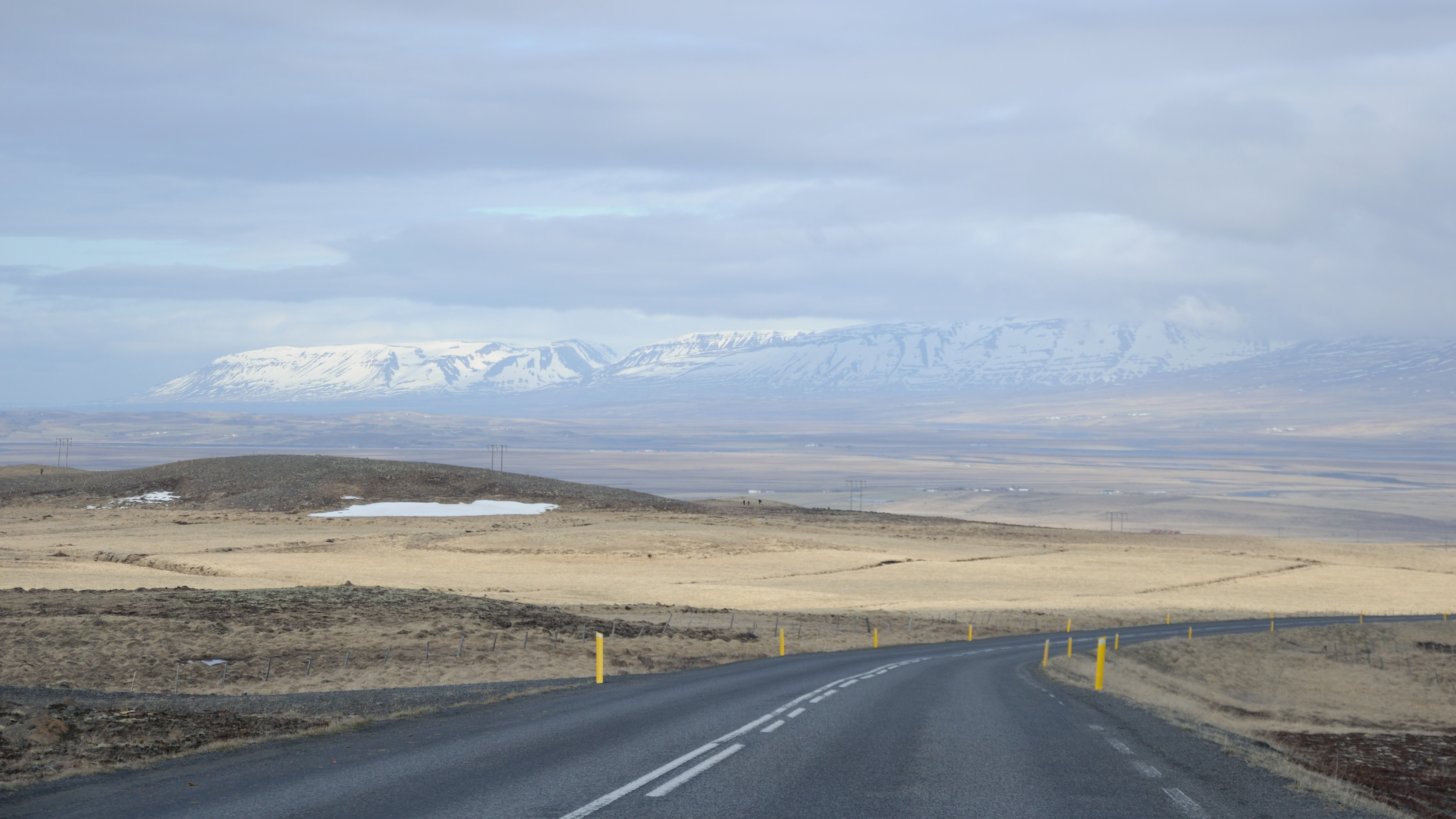 Iceland, impressions on road 1 (Hringvegur) between Hvammstangi and Varmahlíð